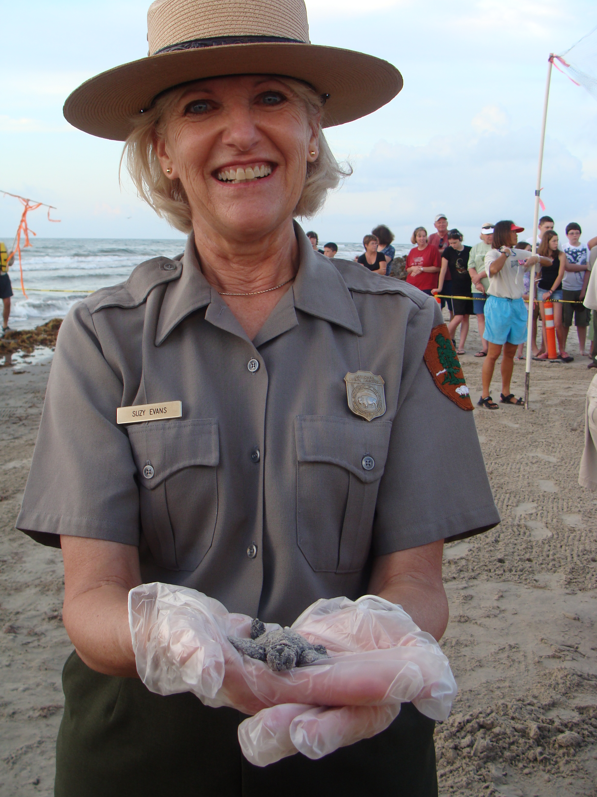 Kemp's Ridley is an extremely endangered Sea Turtle. The US National Park Service every year hatches these turtles and releases them to the sea after incubation to help increase their numbers. Seen here is an annual "Sea Turtle Hatchling Release" event at Padre Island National Seashore. more info about event here